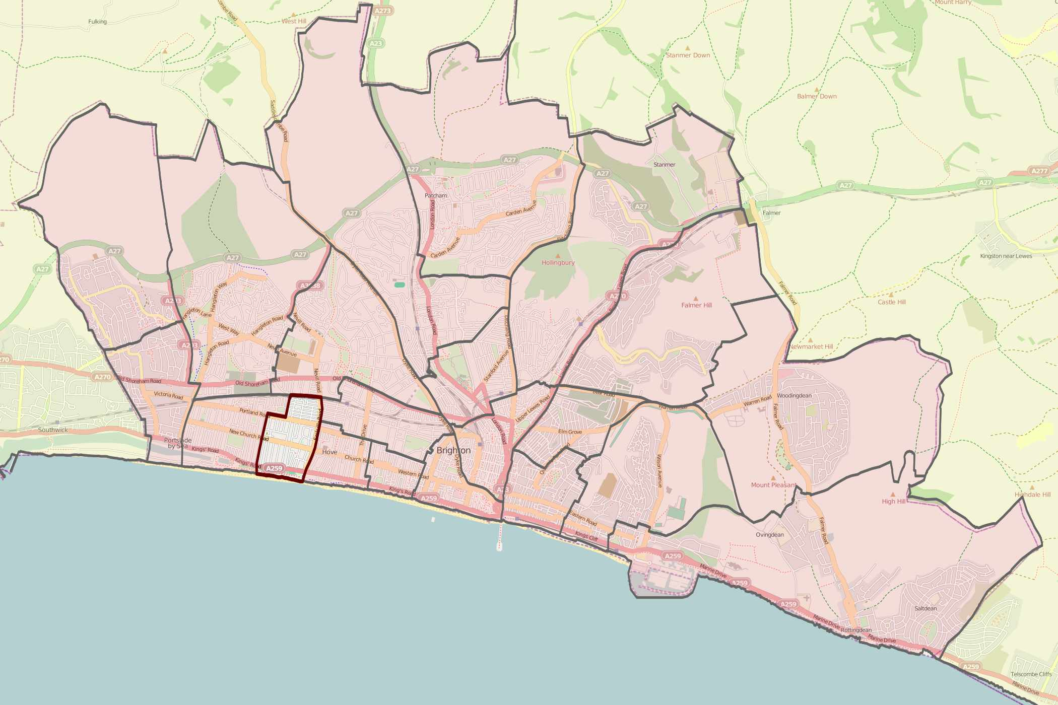 Map of Brighton and Hove wards with one ward highlighted